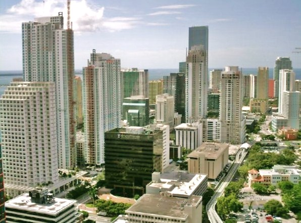 Miami Underconstruction